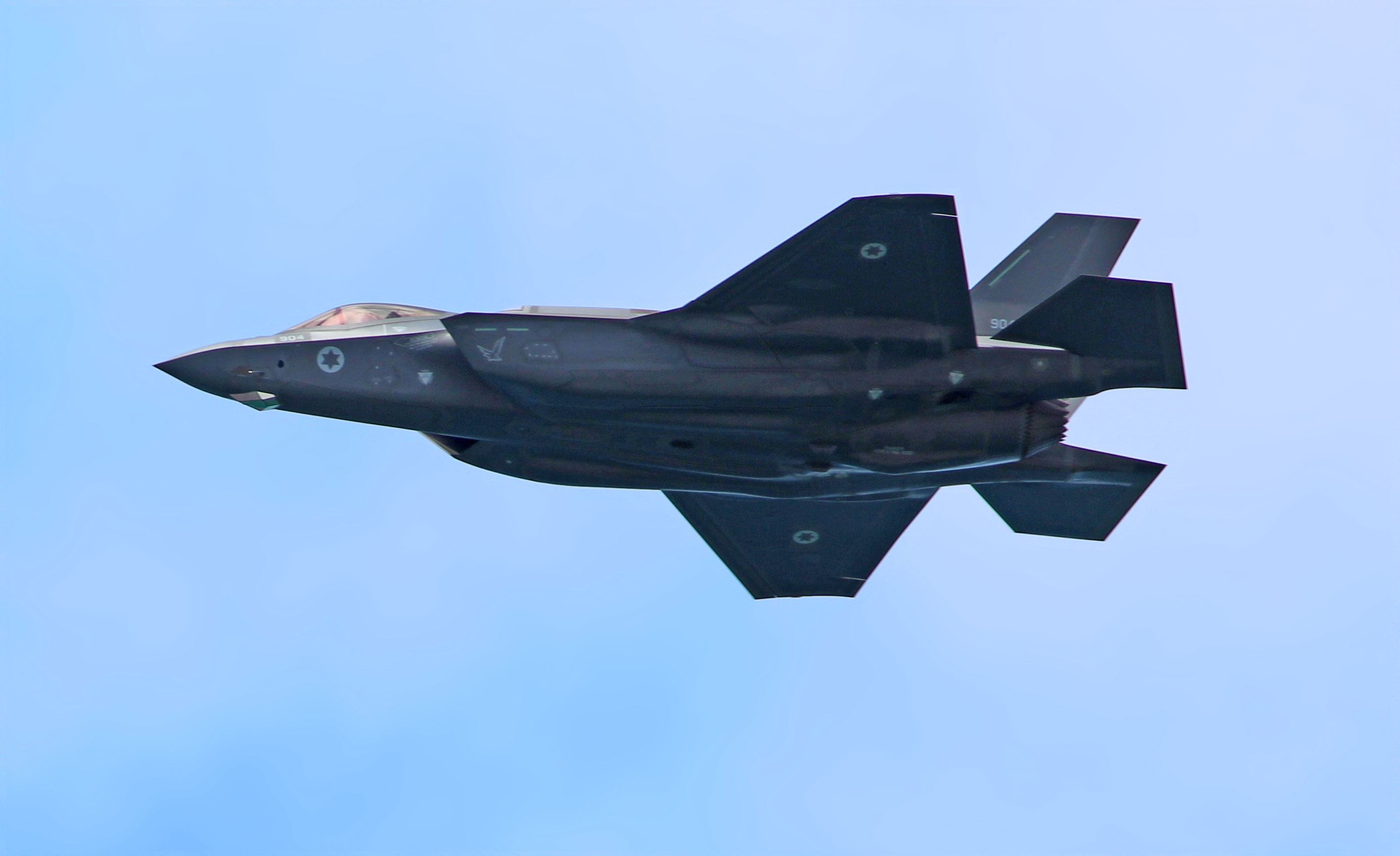 IAF F-35I Adir in Air Force Fly By, Beaches of Tel Aviv-Yaffo, Israel 71st Independence day